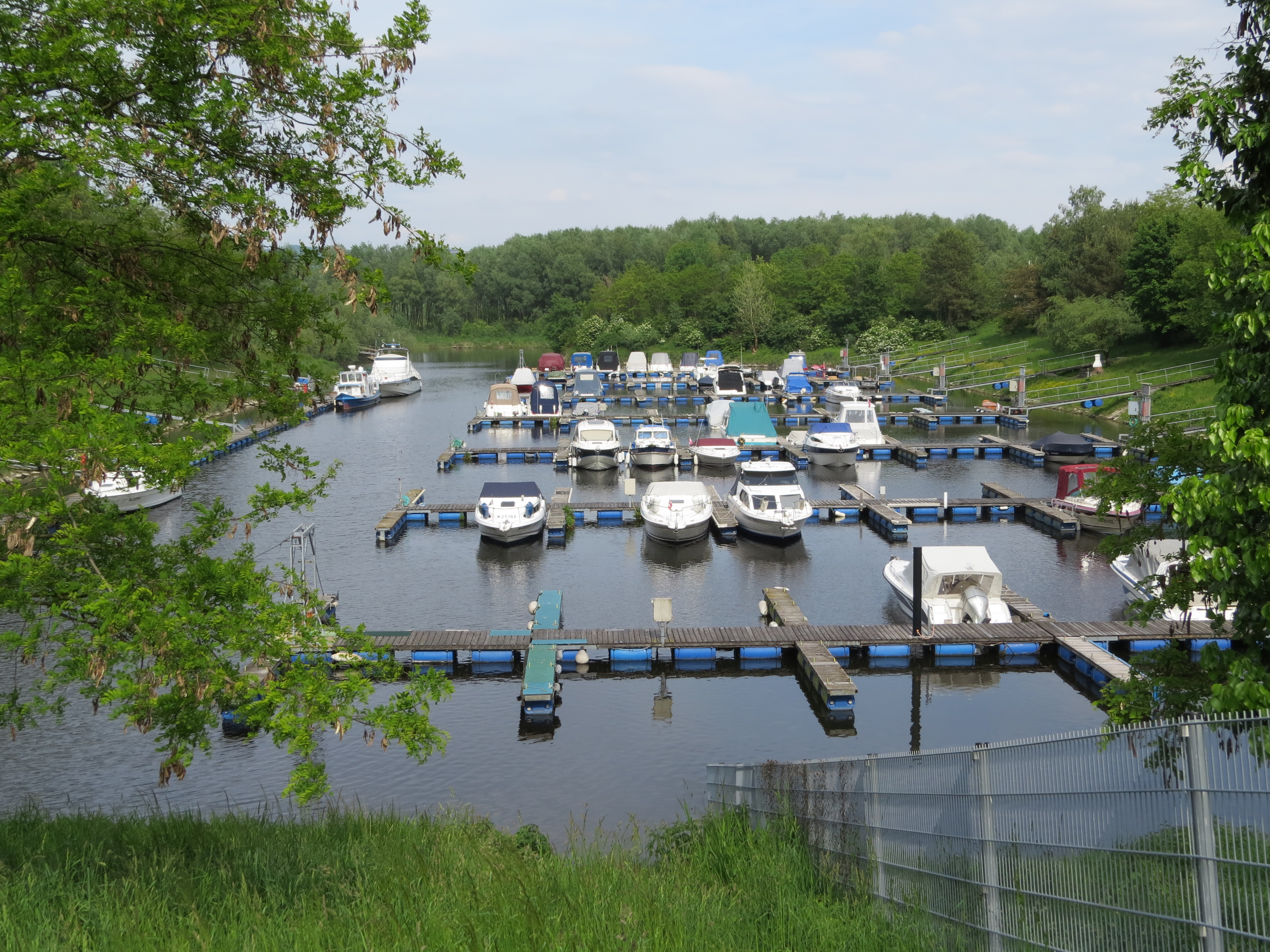 Sportboothafen Emmersdorf-Luberegg in Emmersdorf an der Donau, Austria